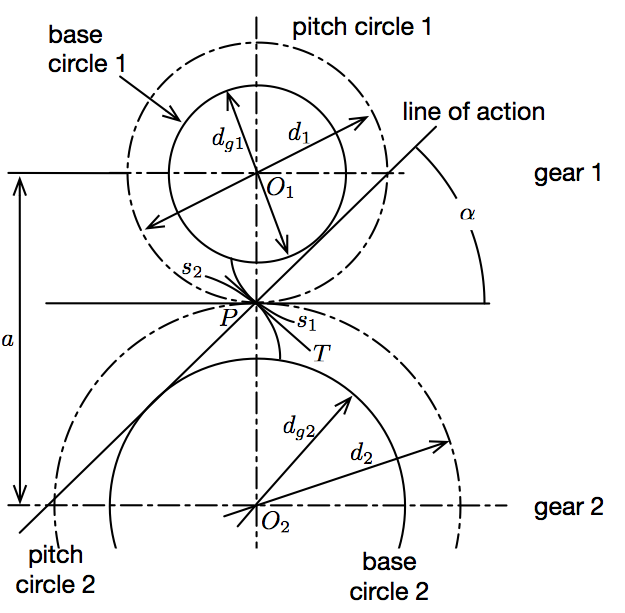 design parts of involute gear